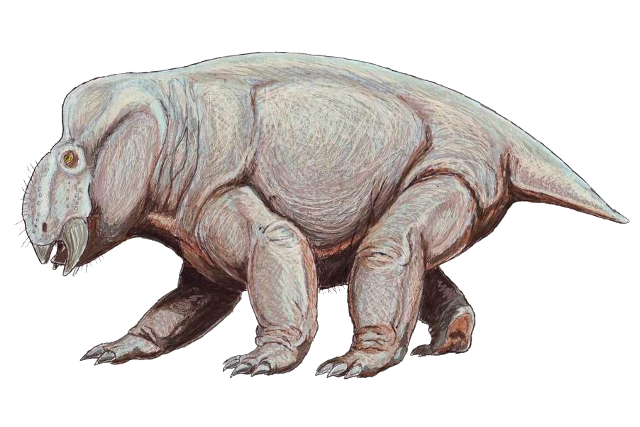 Placerias hesternus